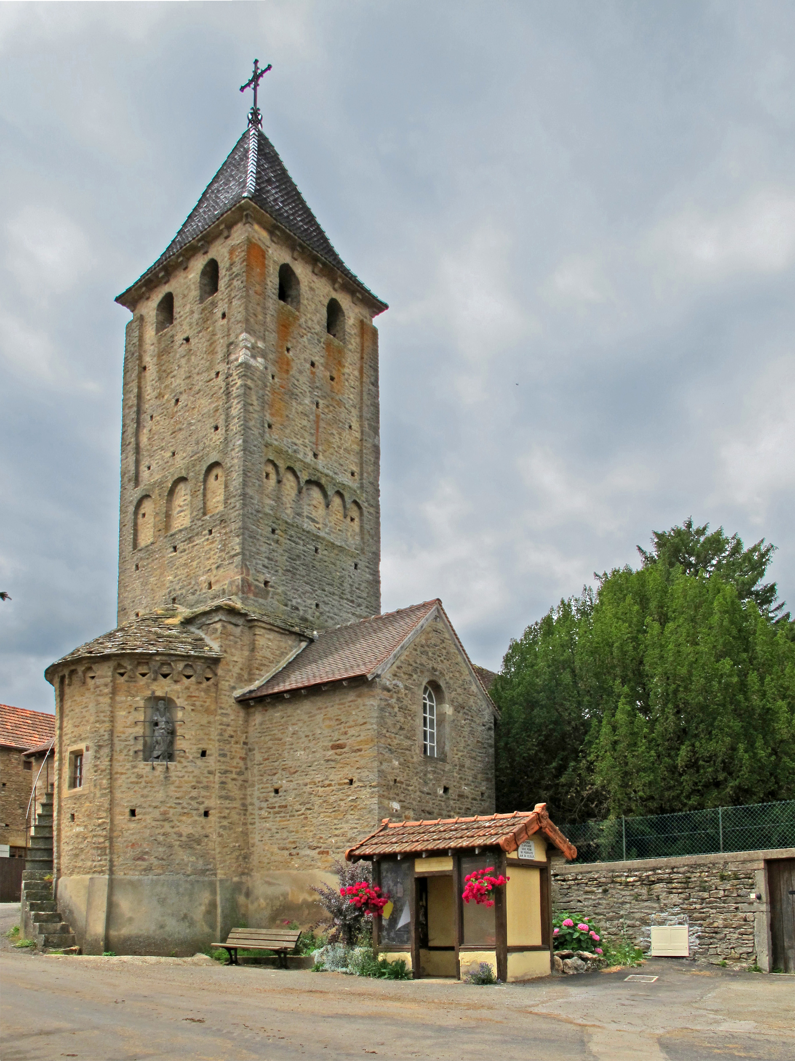 The church (late eleventh century, early 12th century).The bell tower, the apse and the transept are classified since 1974